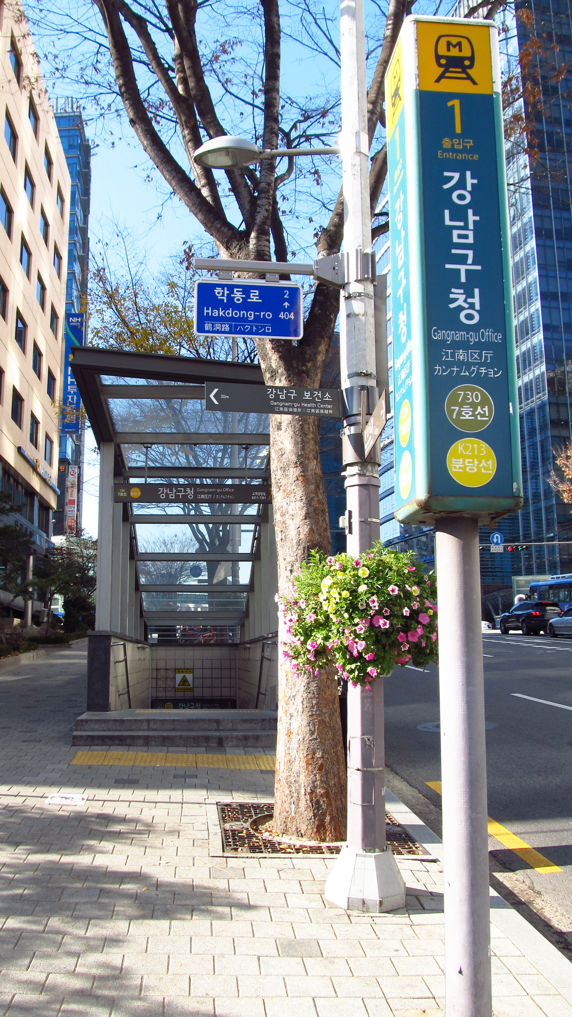 The no.1 entrance to Gangnam-gu Office Station on Seoul Subway Line 7 and Bundang Line in Gangnam-gu, Seoul, Republic of Korea(South Korea)